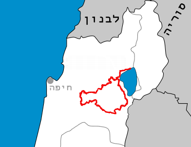 Jesus Trail locator map